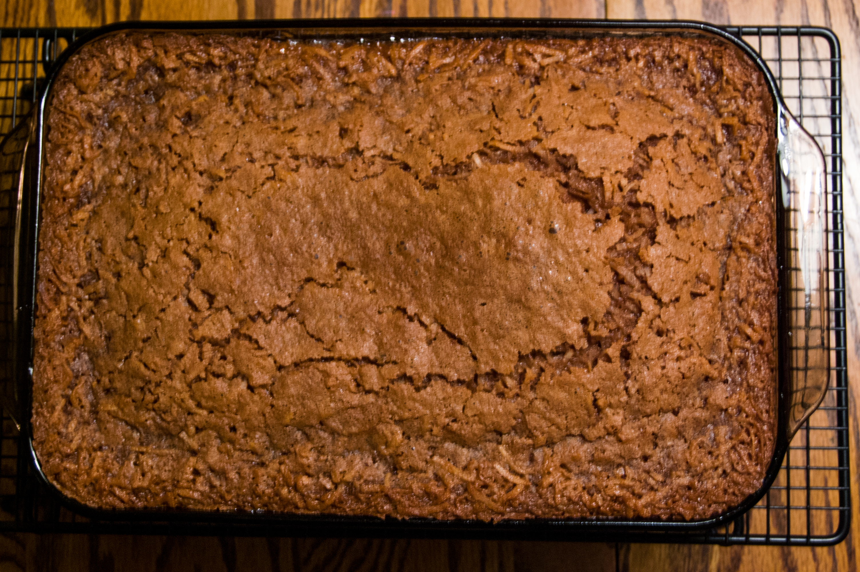 Cocoa Butter Mochi in a 9-inch by 13-inch glass Pyrex pan, fresh from the oven.